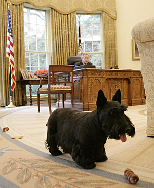 Barney investigates some treats left for him as he visits the Oval Office at the White House.